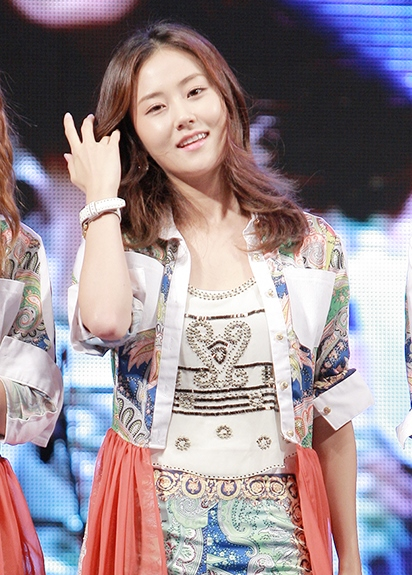 Gayoon performing in Paju on September 15, 2012.